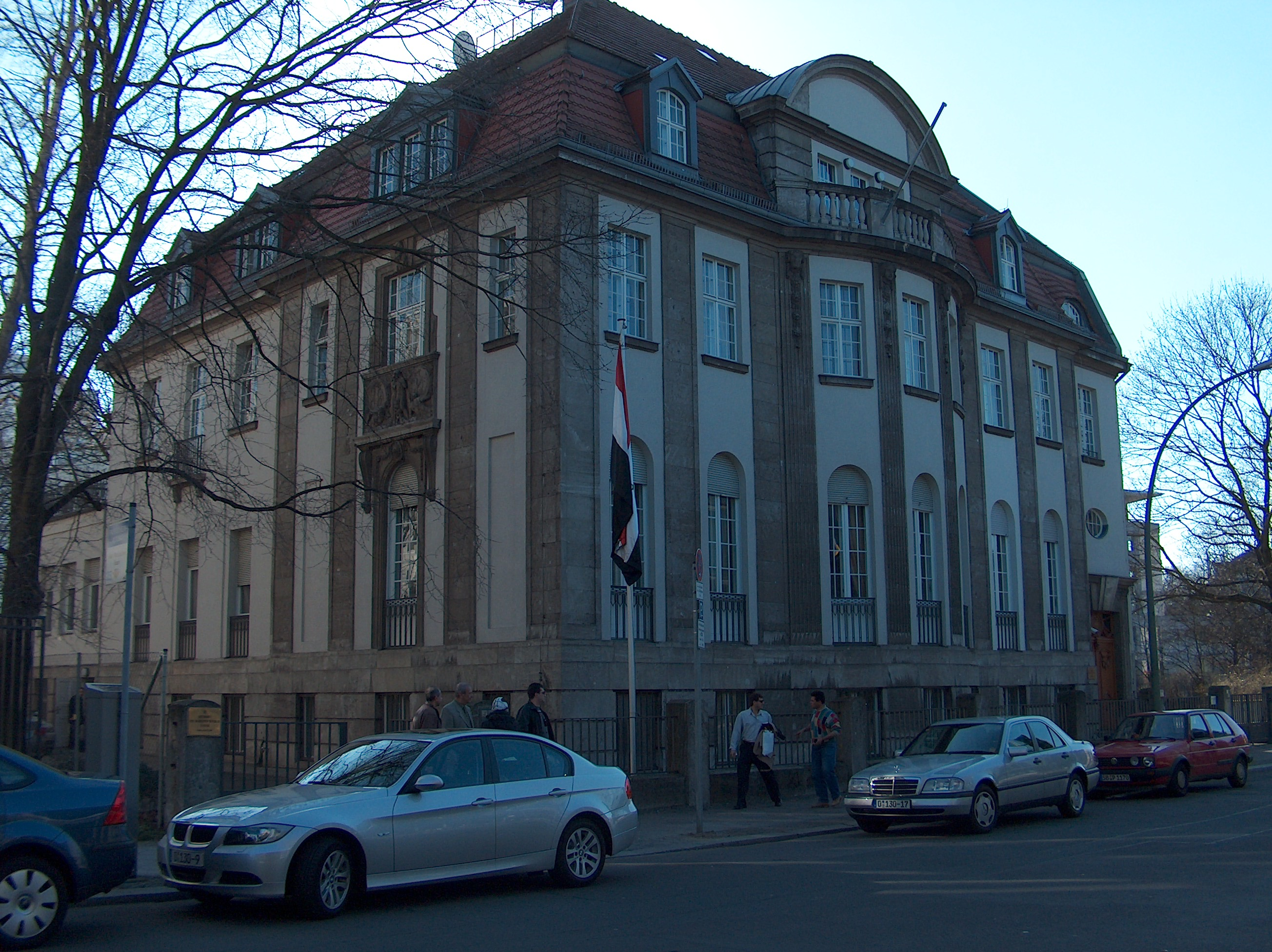 Embassy of Syria - Berlin